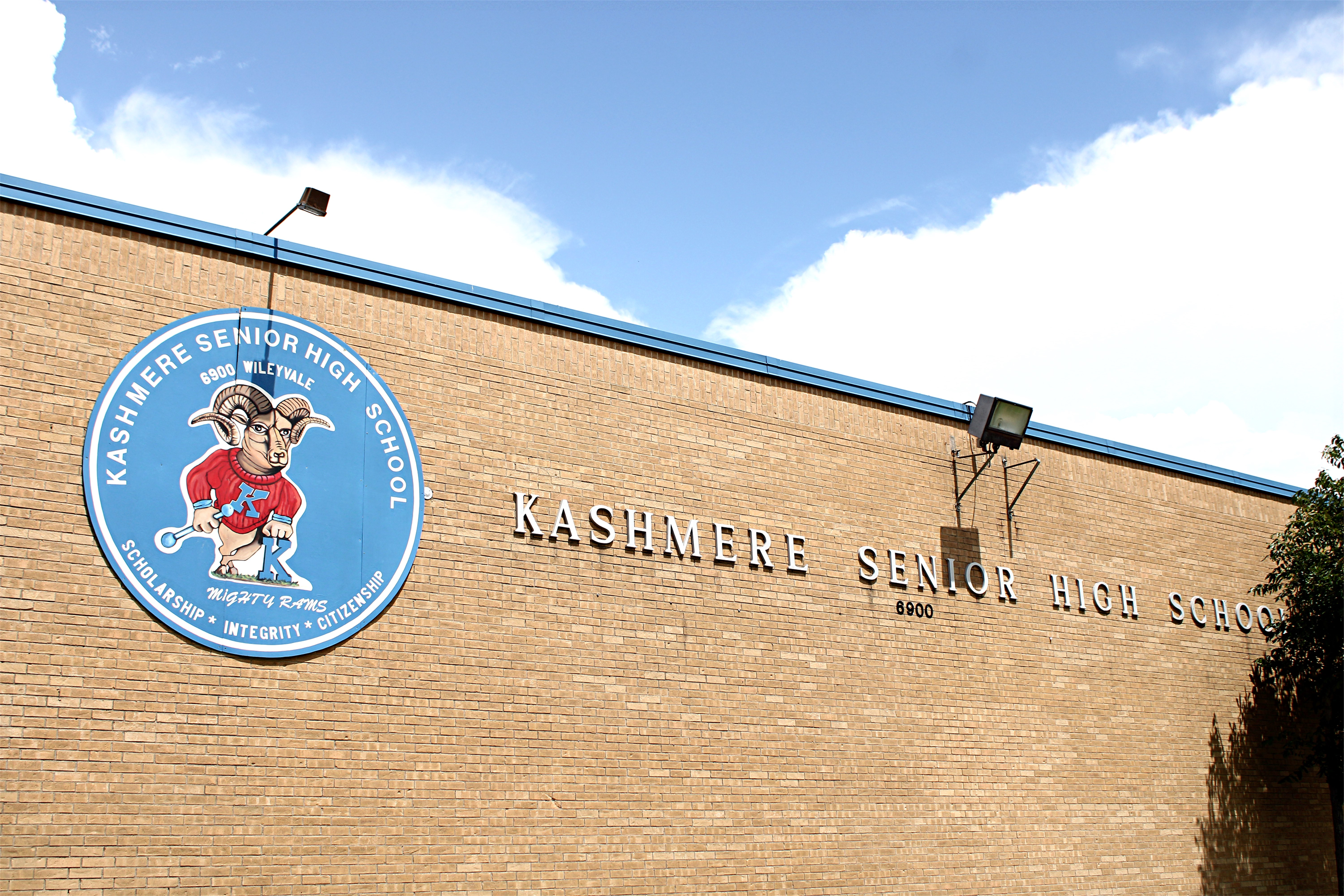 Kashmere High School Original front moniker of Kashmere High School